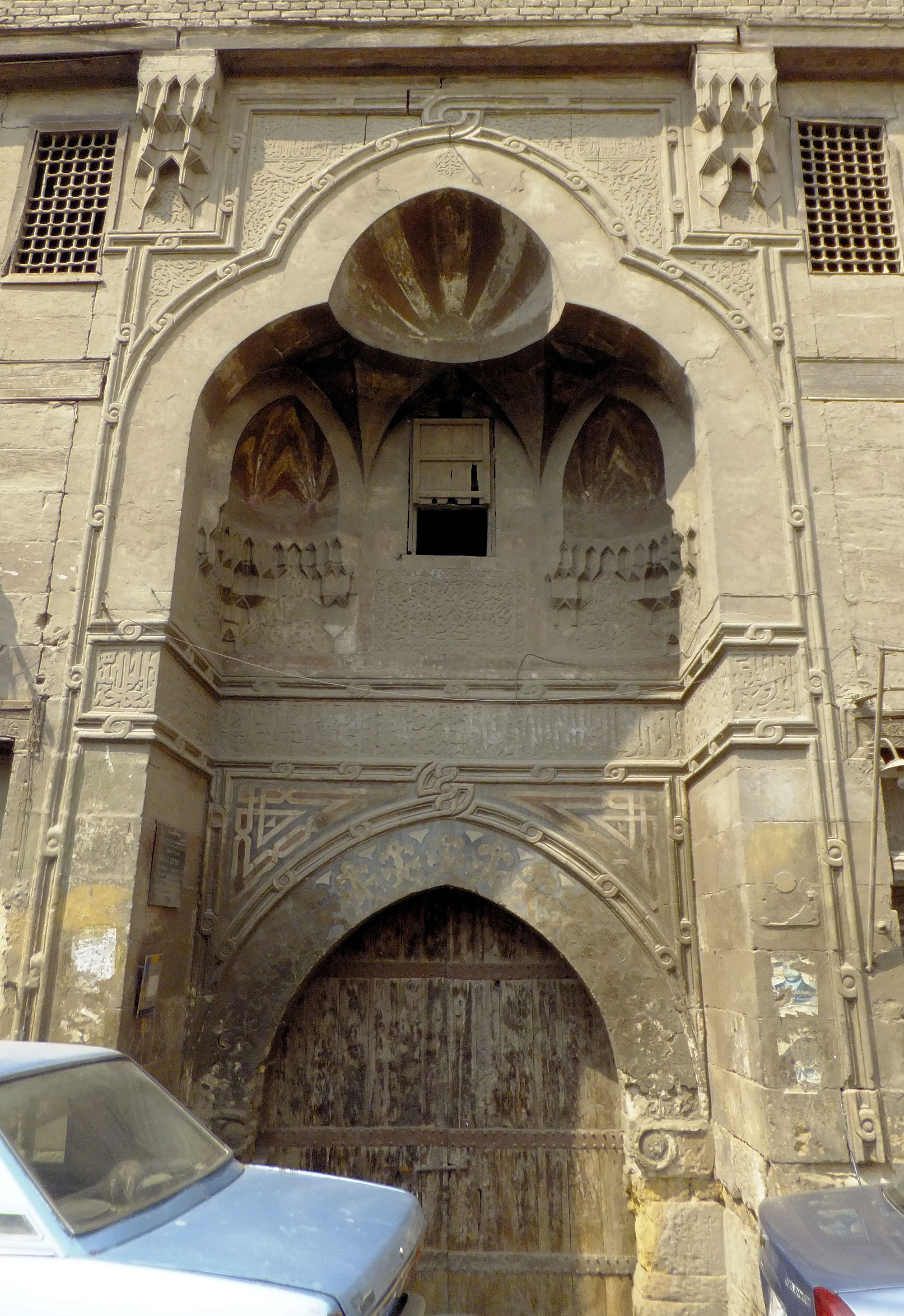 The portal of the Wikala of Sultan Qaytbay, near Bab al-Nasr. Picture taken in 2012 (before subsequent restorations began).